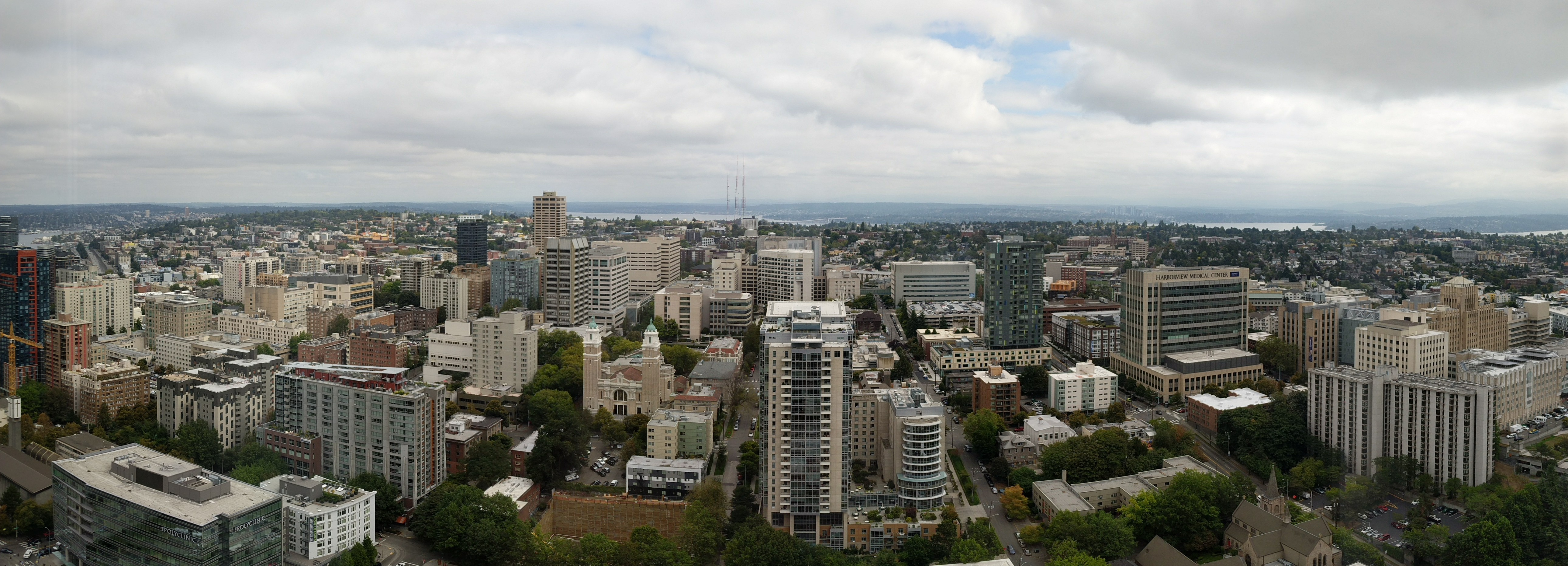 View looking east of First Hill in Seattle, Washington from the Seattle Municipal Tower in Downtown.